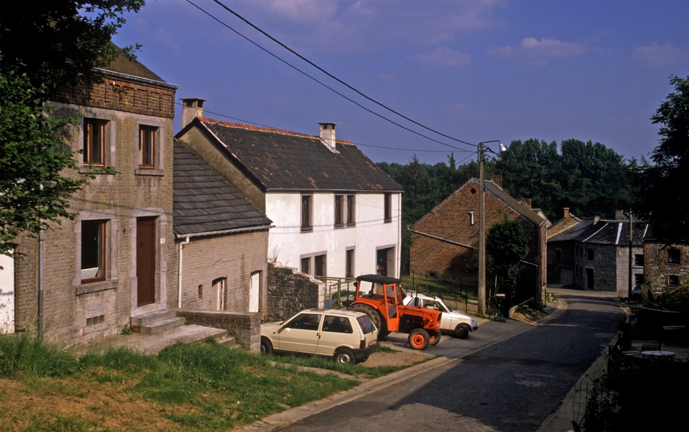 Conneux (Ciney, België): the Rue de la Citadelle in 1990